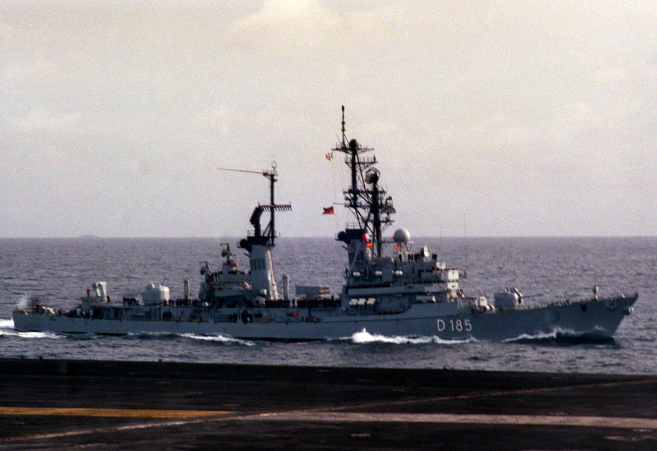 The West German guided missile destroyer Lütjens (D185) underway alongside the U.S. Navy aircraft carrier USS Forrestal (CV-59) during exercise Team Work '88.